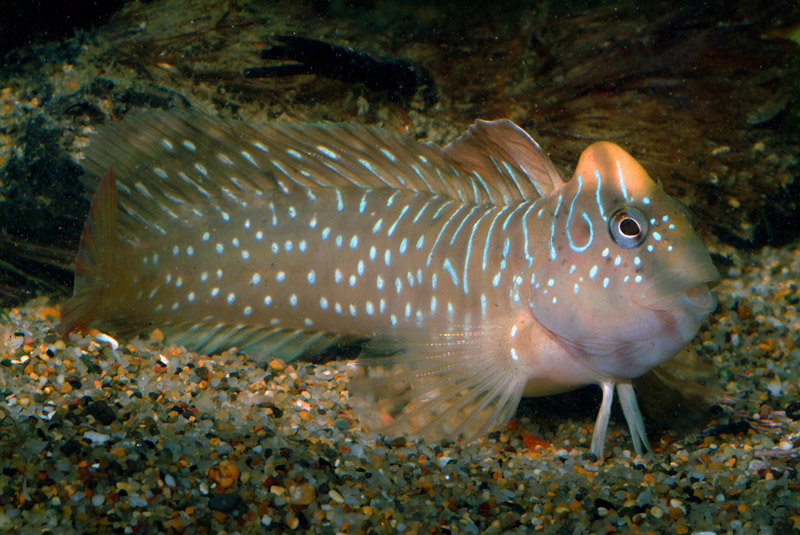 Salaria pavo photographed near Tuscany coasts (Italy). Photo by Stefano Guerrieri.